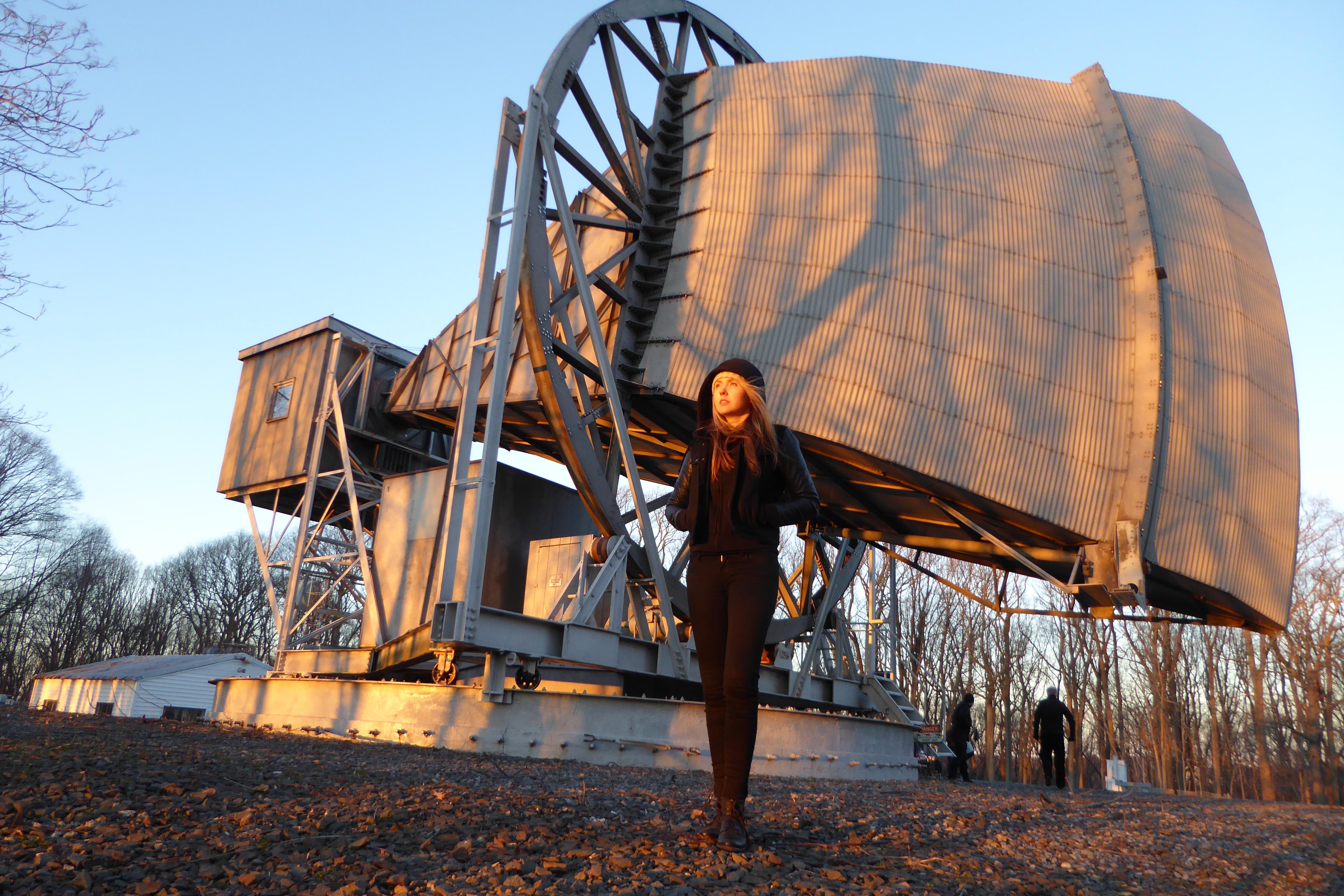 Beatie Wolfe standing at the Holmdel Horn Antenna from which she broadcast her album into Space